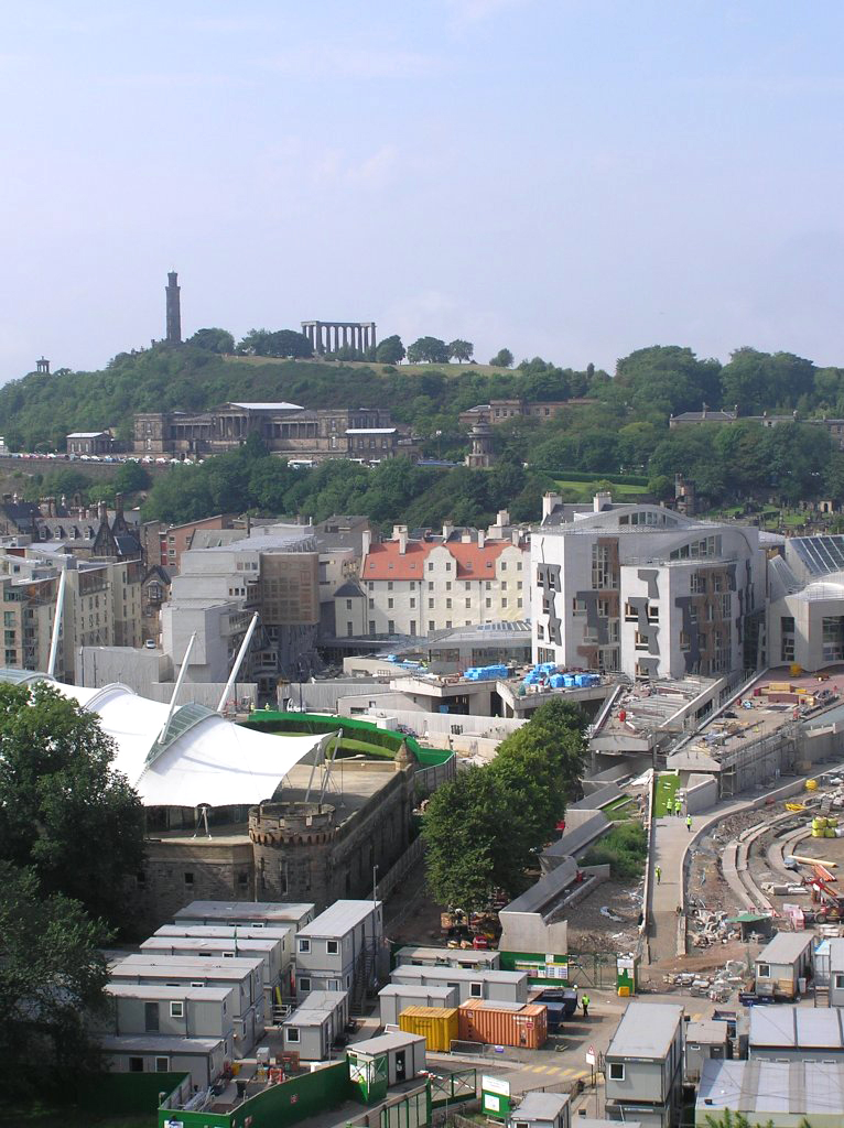 Construction continues on Enric Miralles' elaborate new complex for the seat of the Scottish Parliament in Holyrood park (opposite Holyrood Palace, and below Arthur's Seat). The spikey white building to the left is not part of the parliament - it is "Our Dynamic Earth", a science exhibition space. Above the new parliament, half-way up the Calton Hill behind it, is the neoclassical Old Royal High School, which was prepared for a previous devolved Scottish parliament, but never used. On top of the Calton Hill are several monuments, including the squat, naval-rigged tower, a monument to Horatio Nelson. Photo taken by Finlay McWalter on 7th August 2004 from part-way up Arthur's Seat.